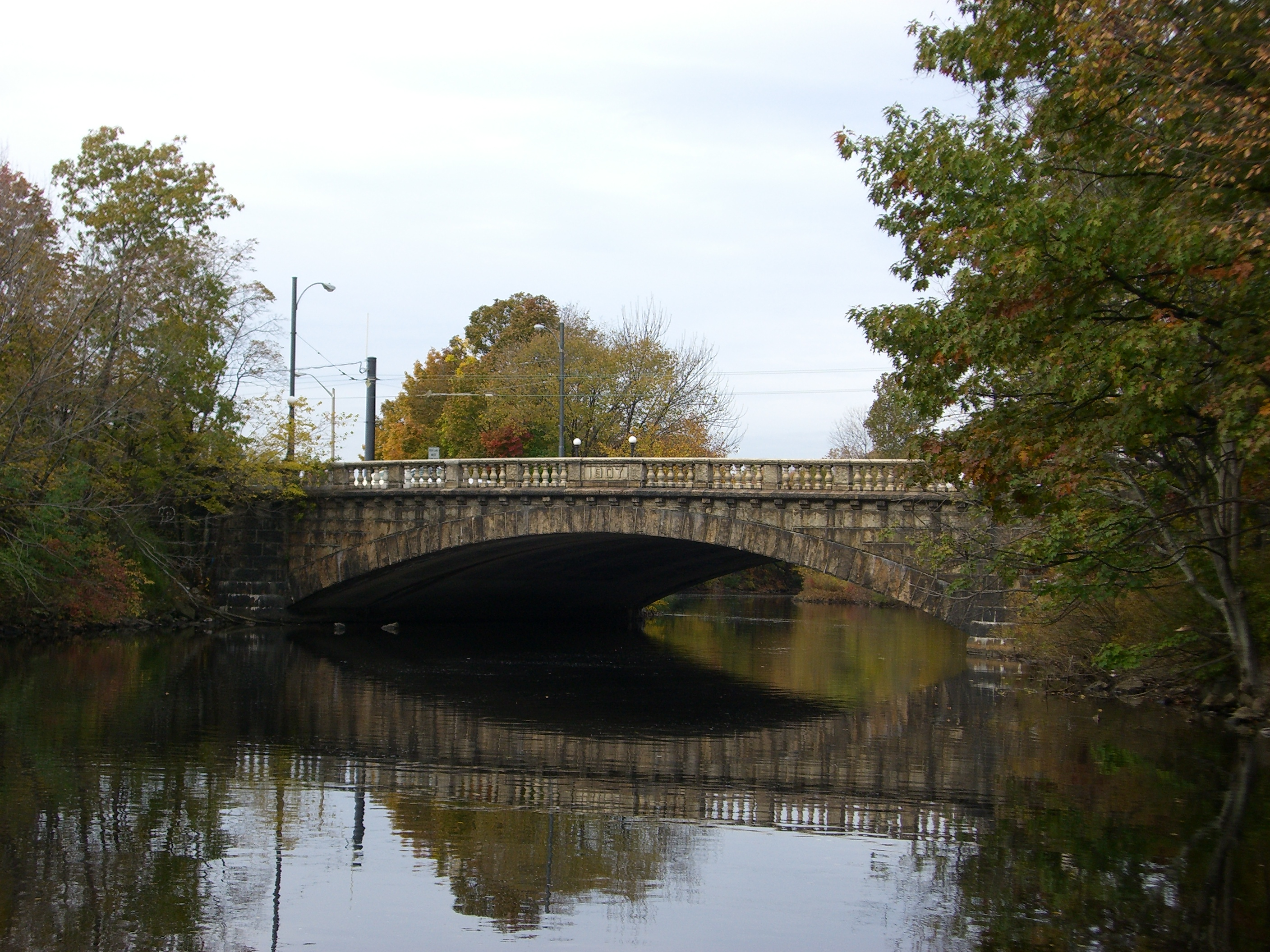 Watertown Bridge, Watertown, Middlesex County, Massachusetts, USA